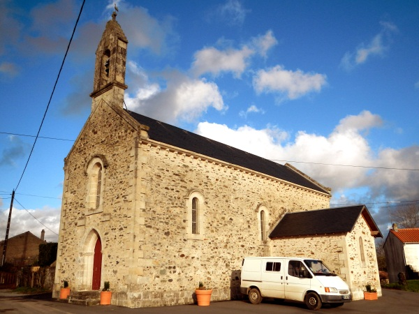 Saint-Nicolas church, Puihardy, Deux-Sèvres.